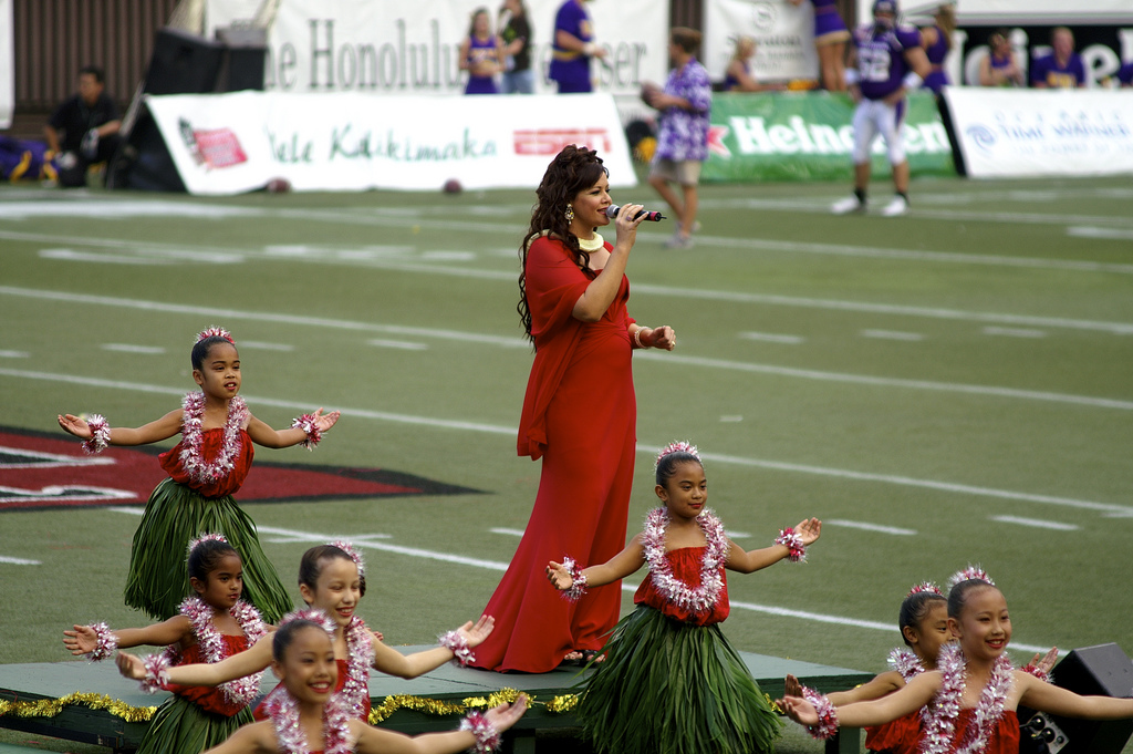 Boise State University vs East Carolina University - Halftime show